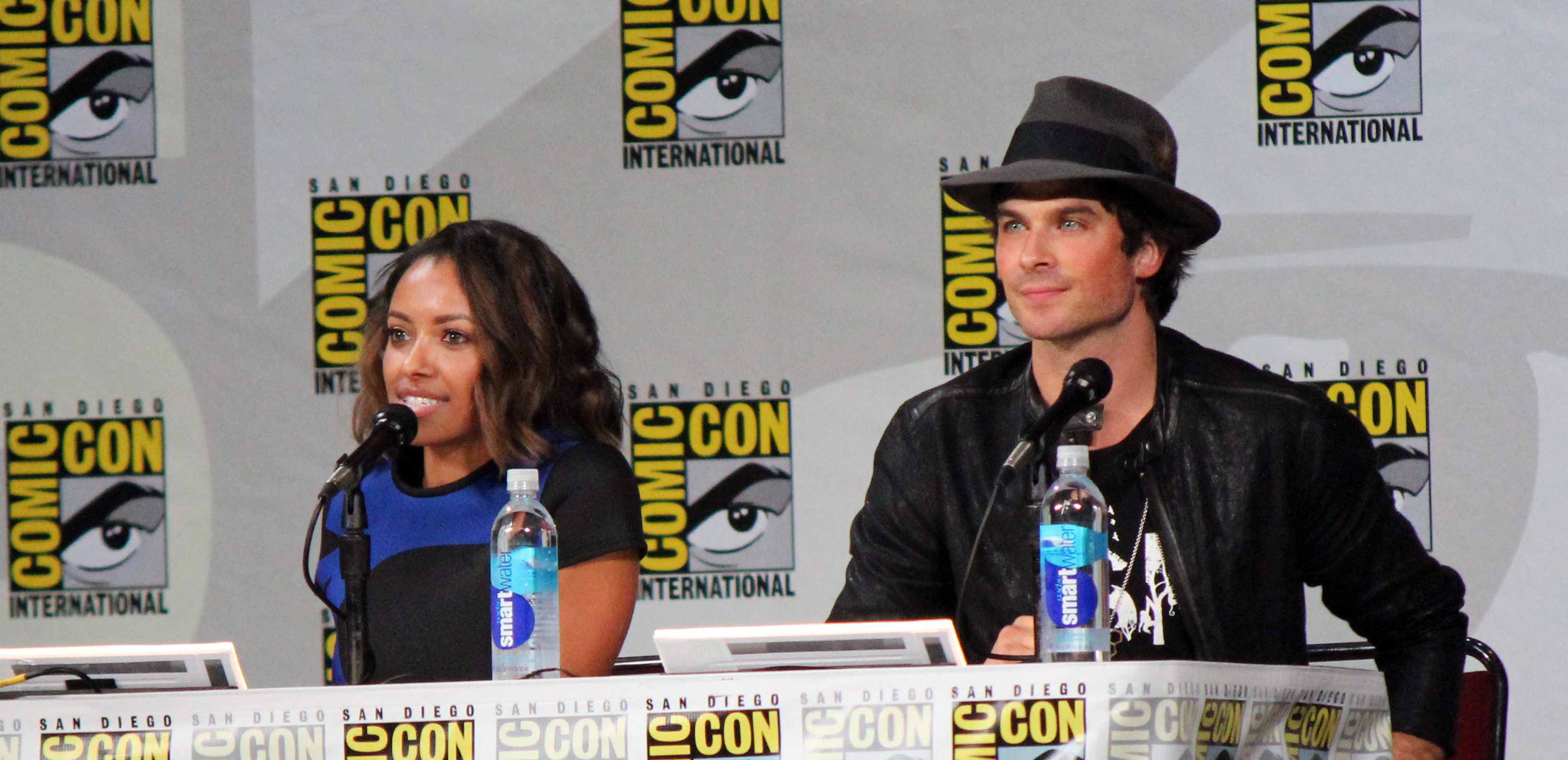 Katerina Graham and Ian Somerhalder at The Vampire Diaries panel at the 2014 Comic-Con convention in San Diego, California.